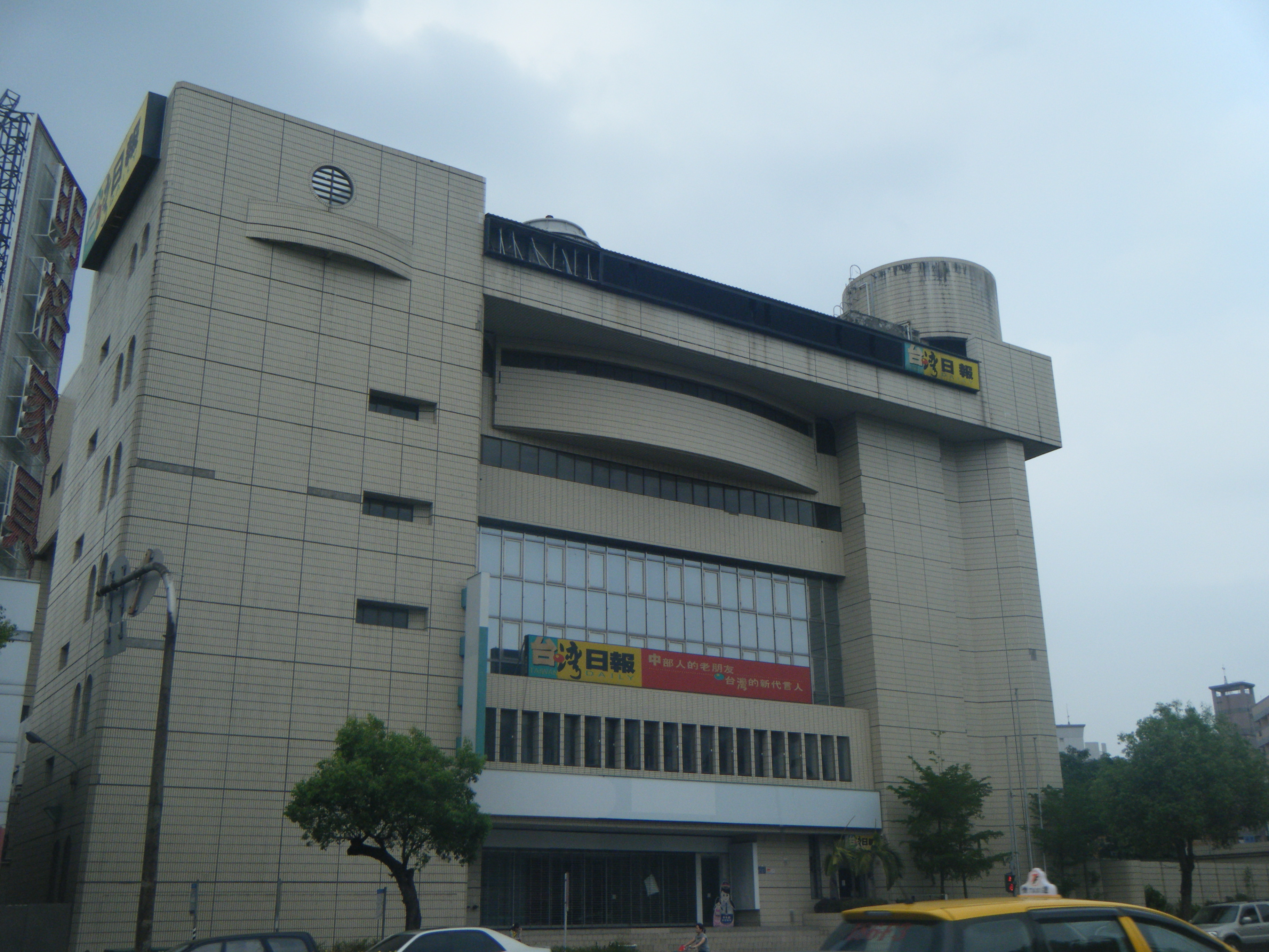 Taiwan Daily Building